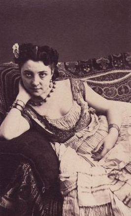 Mlle Gervais from Bouffes-Parisiens (actress / singer)